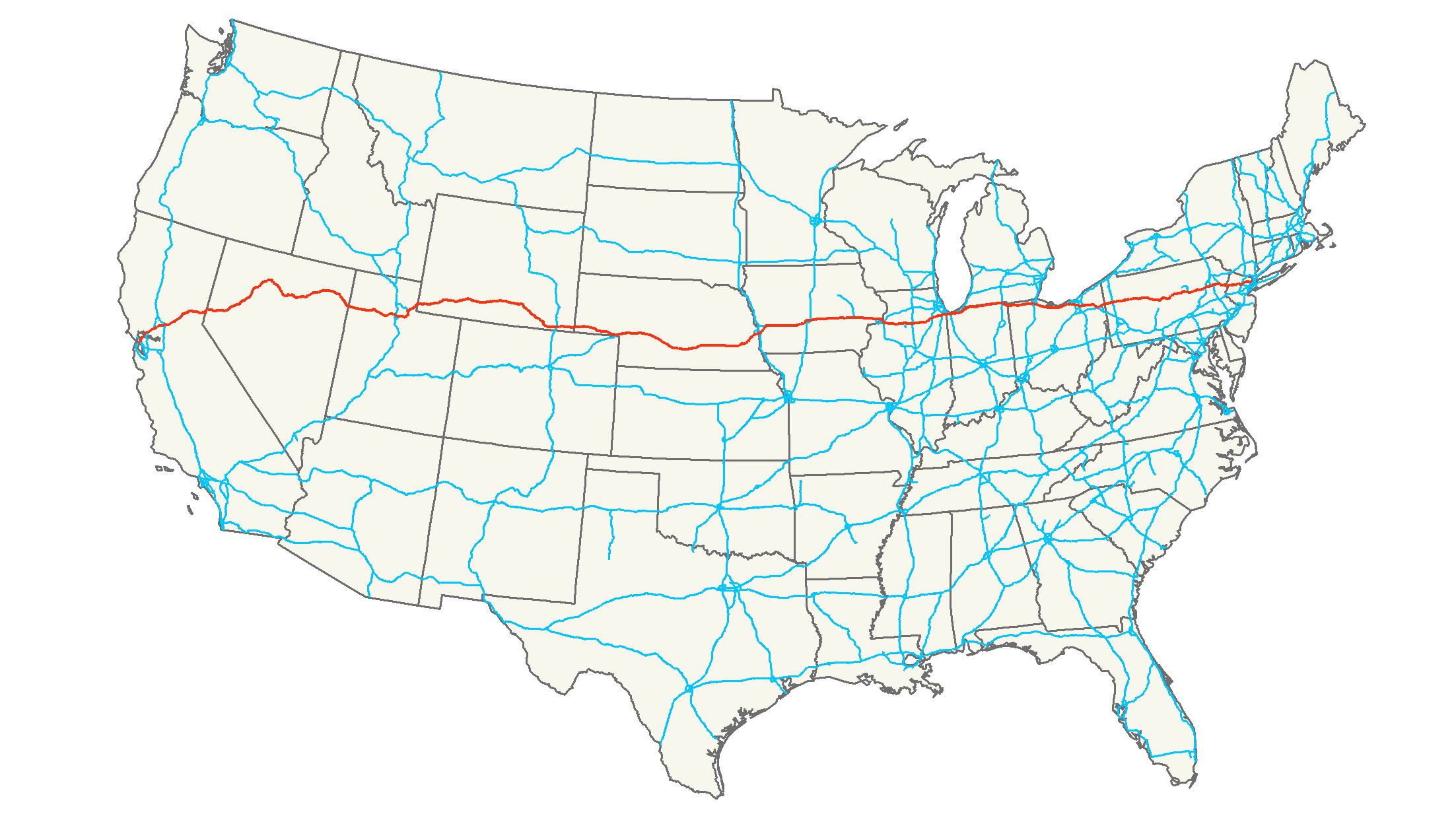 Map of Interstate 80